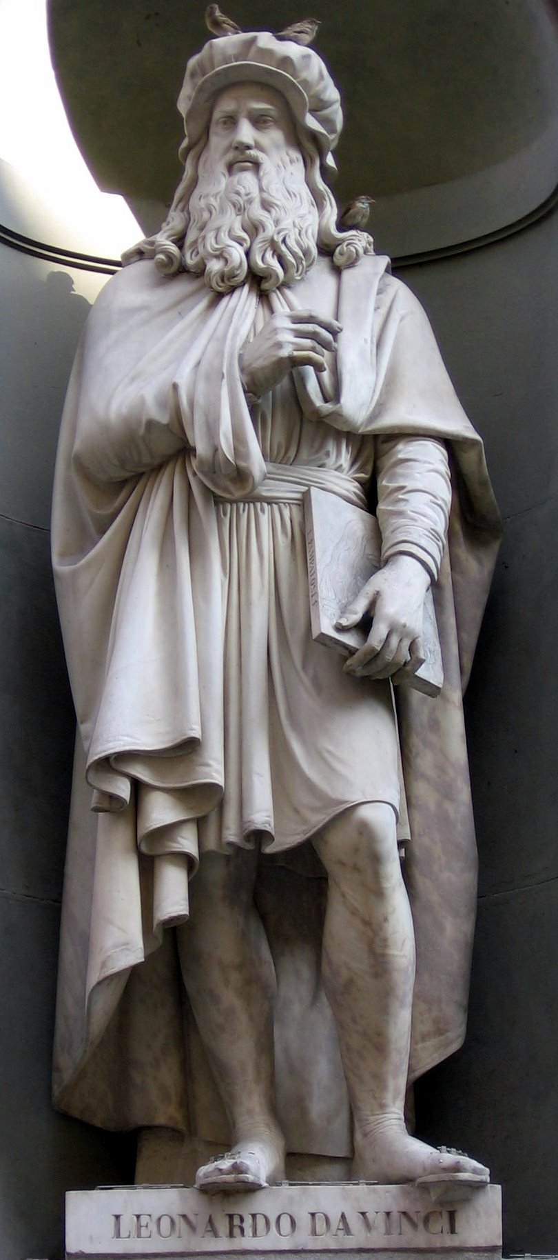 A statue of Leonardo da Vinci (sculptor unknown). This statue stands outside the Uffizi Gallery in Florence, Italy, along with several other statues of Great Florentines.